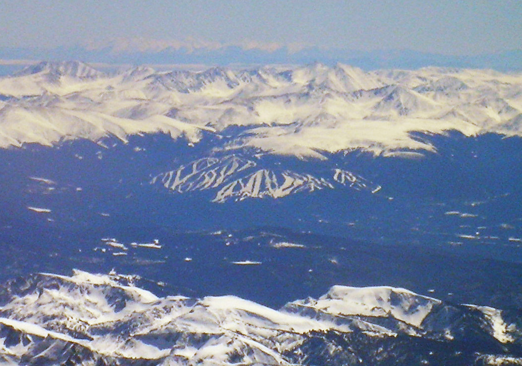 An aerial view of the Fraser Valley in Colorado, United States. Winter Park Ski Resort can be seen in the distance.